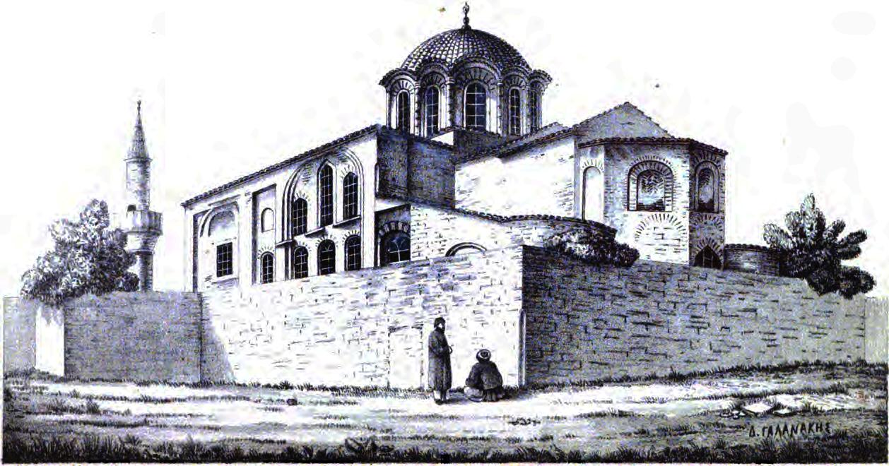 Byzantinai meletai topographikai (1877) Author: Paspatēs, Alexandros Geōrgiou, 1814-1891. [from old catalog] Subject: Inscriptions, Greek Year: 1877 Possible copyright status: NOT_IN_COPYRIGHT Language: English Digitizing sponsor: Google Book contributor: Oxford University Collection: europeanlibraries